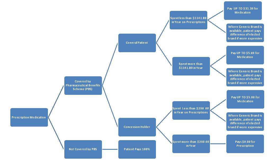 Flow Diagram Showing the Provision of Medication under the Pharmaceutical Benefits Scheme. Based on 1 January 2008 Thresholds. Read The Main Article for further Information.